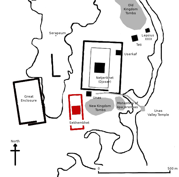 Sekhemkhet pyramid on the map of Saqqara Necropol